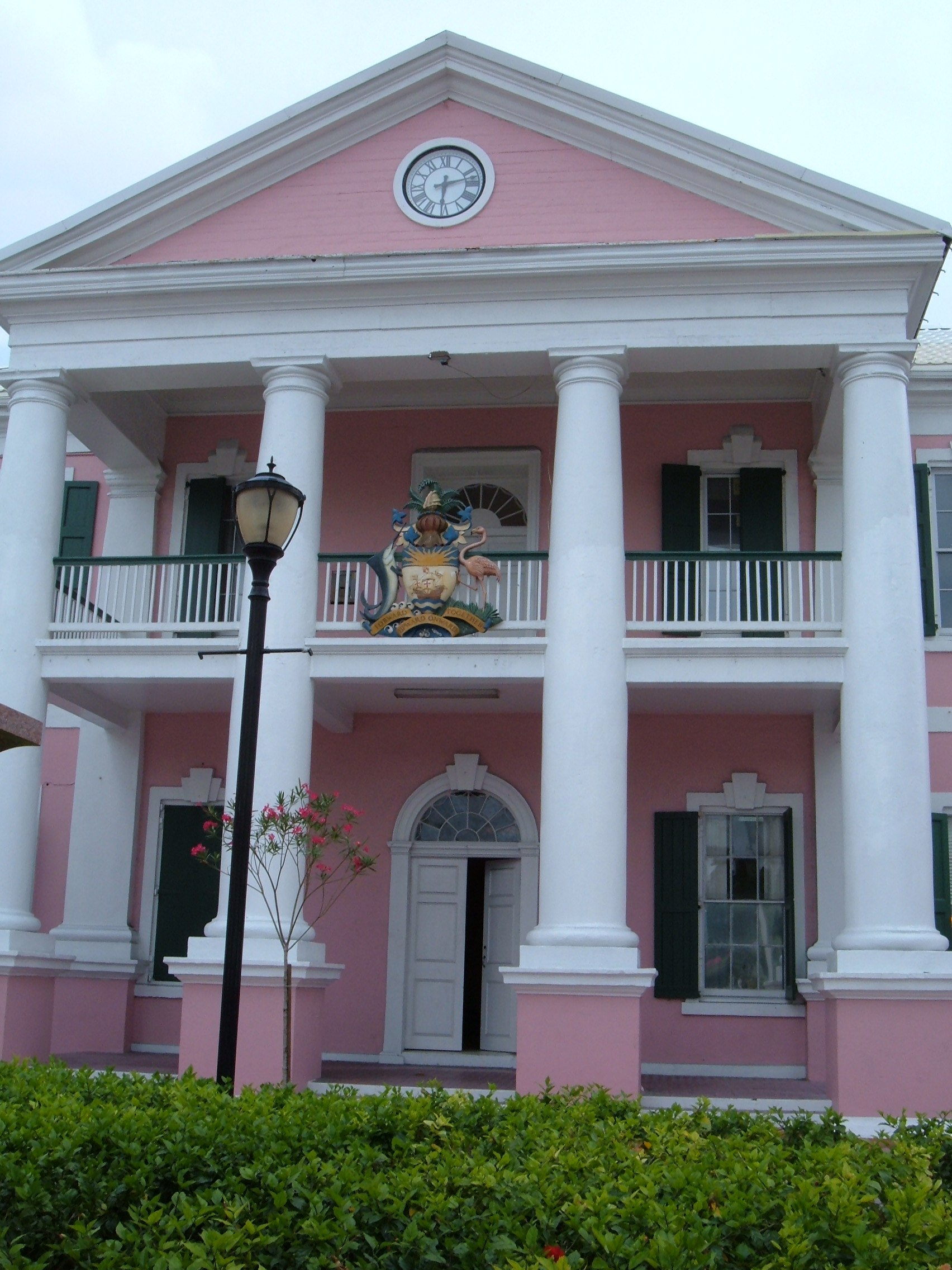 The Parliament of the Bahamas in Nassau.